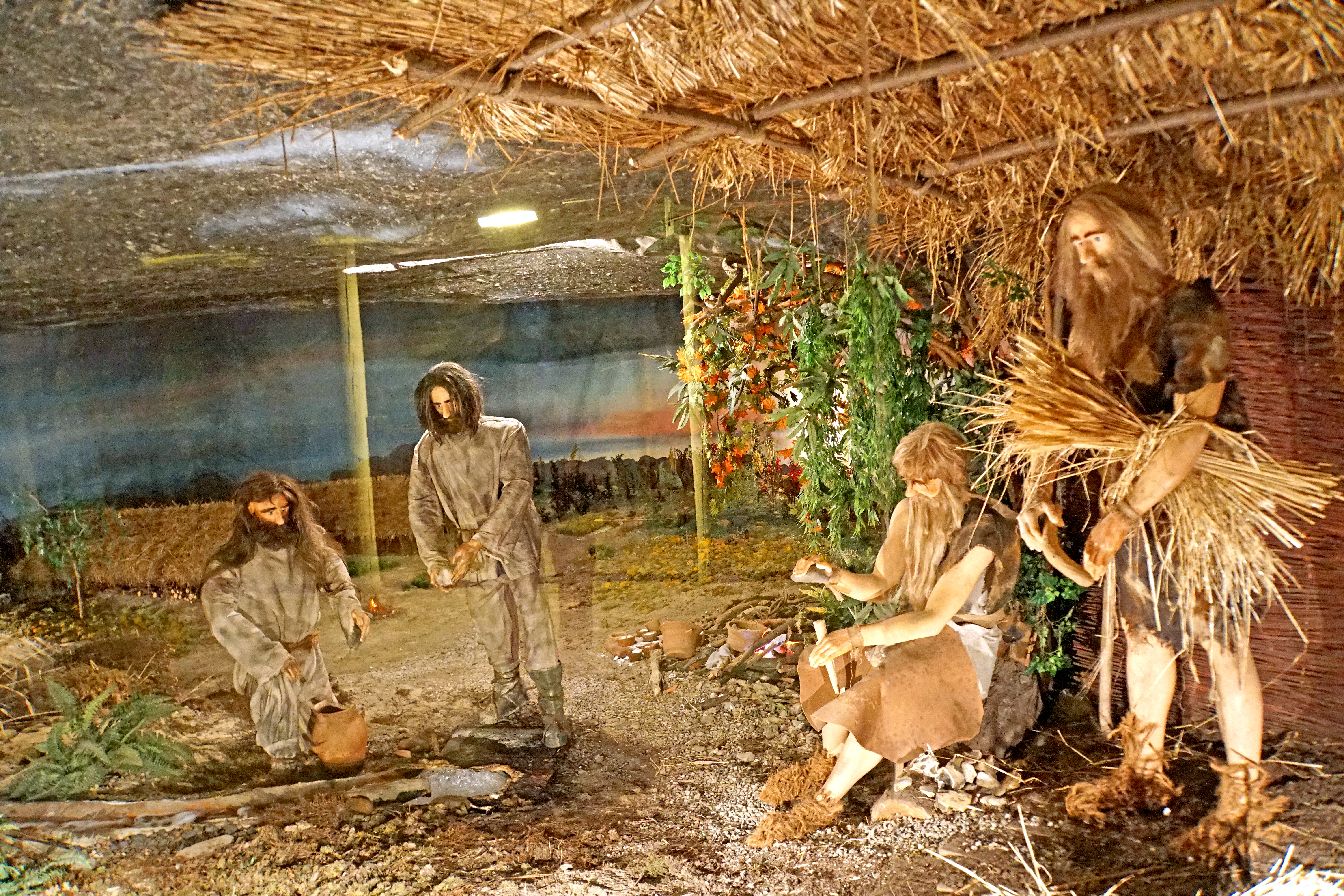 PLEASE, NO invitations or self promotions, THEY WILL BE DELETED. My photos are FREE to use, just give me credit and it would be nice if you let me know, thanks. The first people entered the mine and started using the salt from the deposit during the Neolithic period.